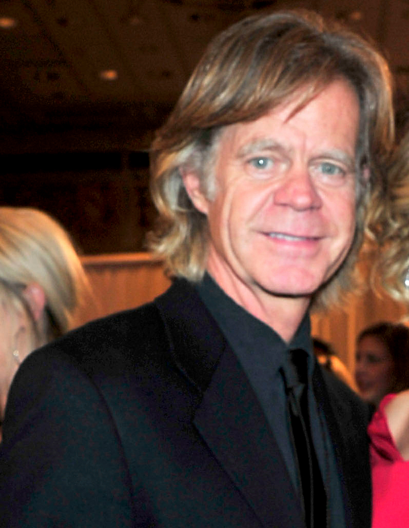 Actor William H. Macy, 2010